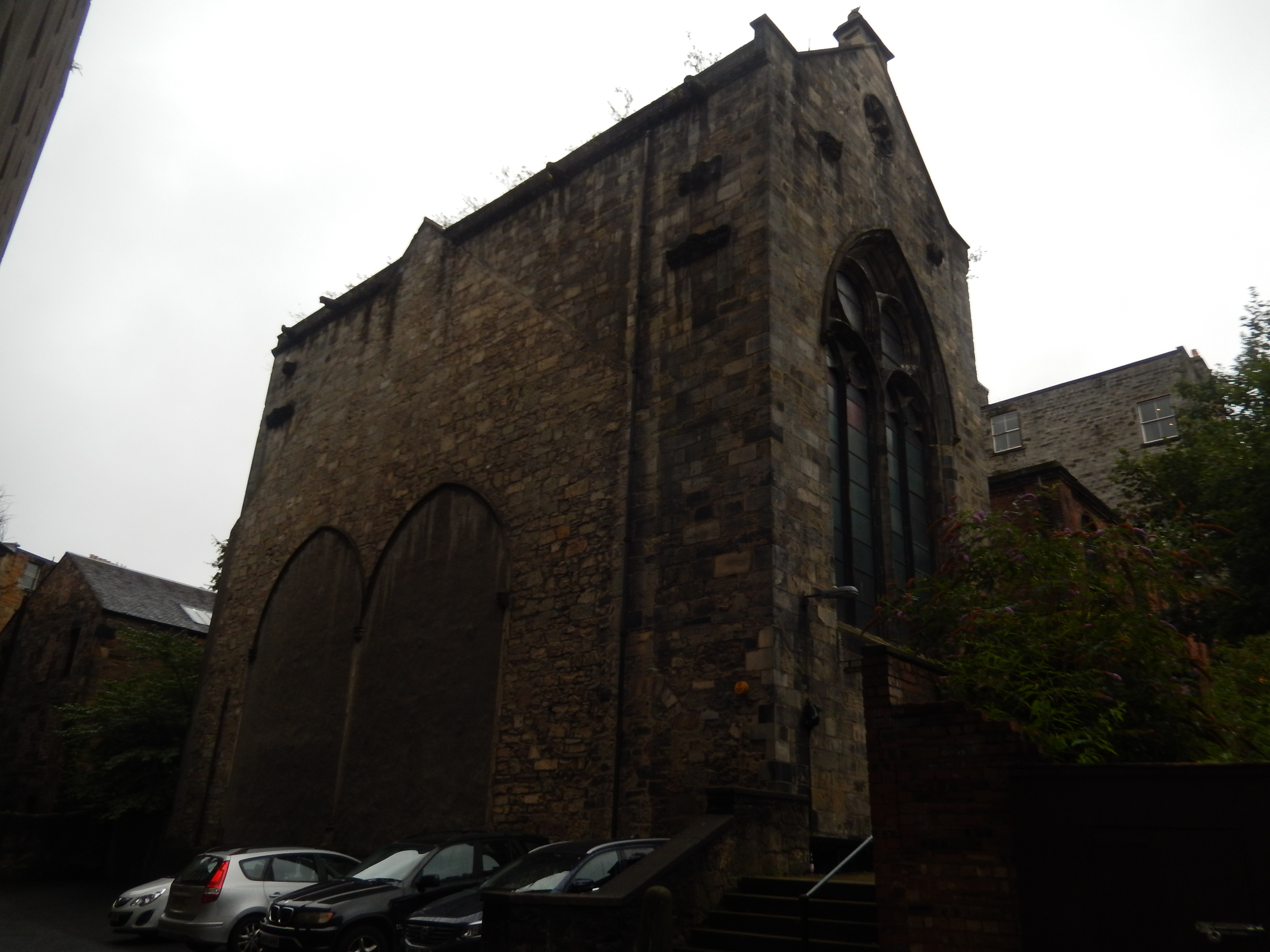 North Side of Trinity Apse, Chalmer's Close, (between High Street And Jeffrey Street), Trinity College Church Apse Wikidata has entry Q17570022 with data related to this item.